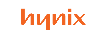 The logo of Hynix Semiconductor